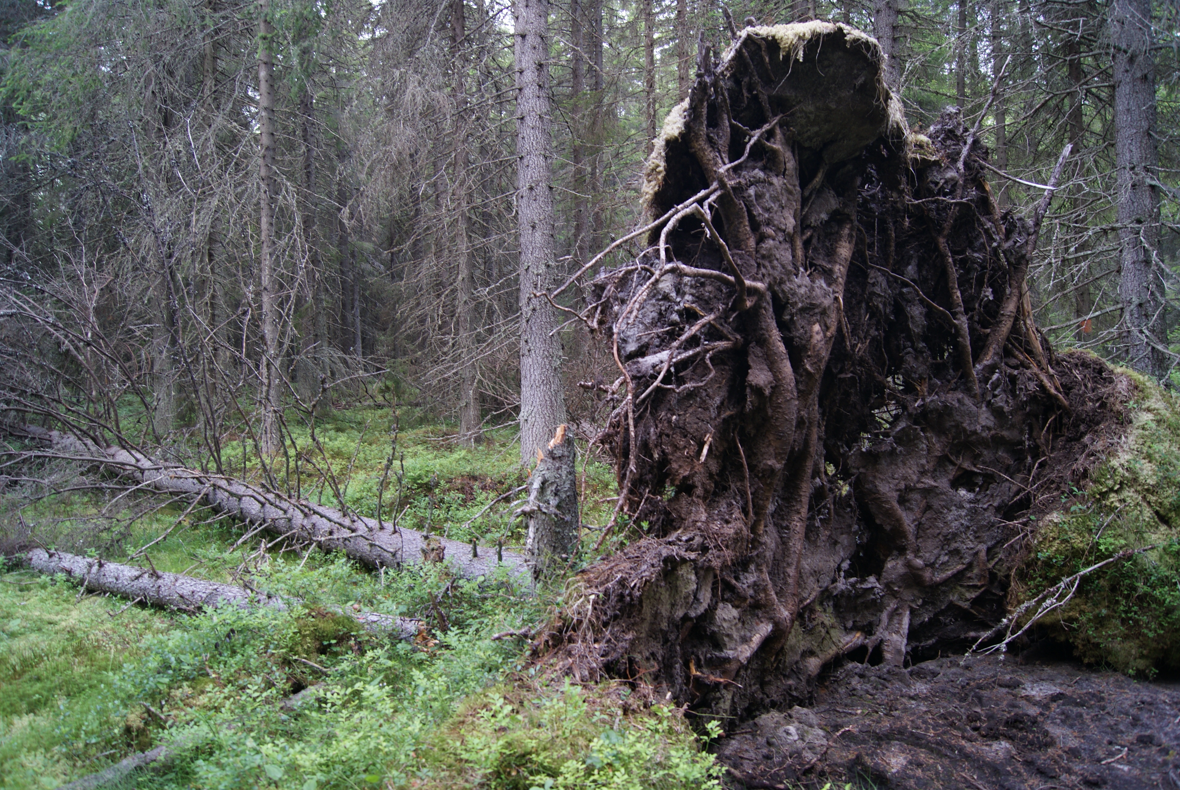 A uprooted tree.